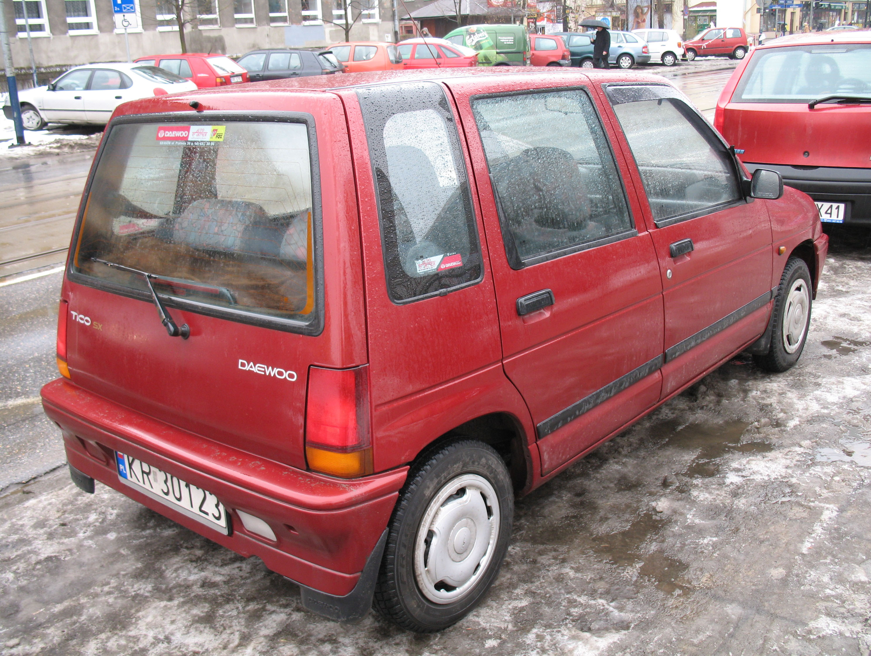 Red Daewoo Tico SX car in Kraków, Poland.